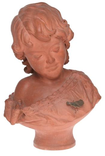 Desiré Duwaerts - Young girl with butterfly on the chest (1884)